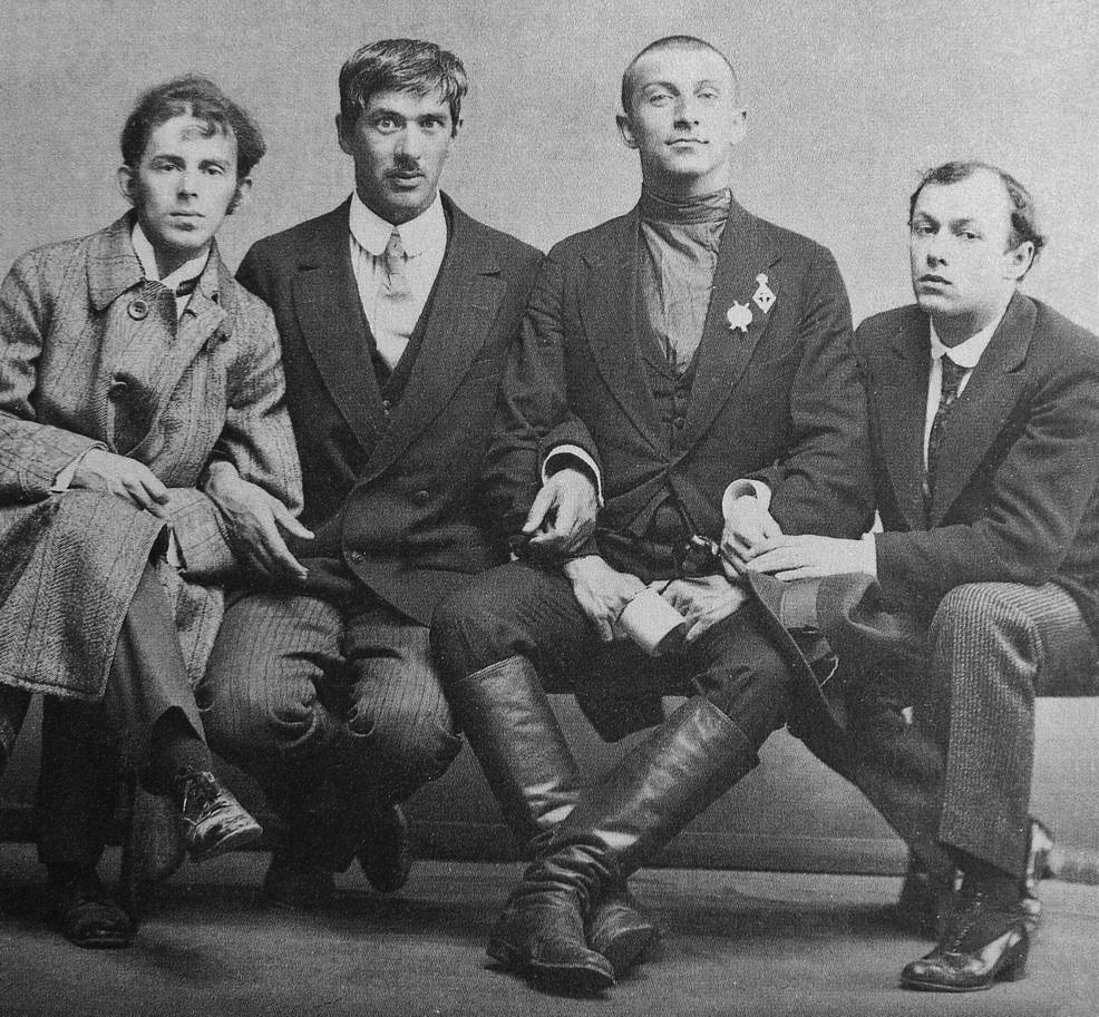 From left to right: Osip Mandelstam, Korney Chukovsky, Benedikt Livshiz, Yuri Annenkov